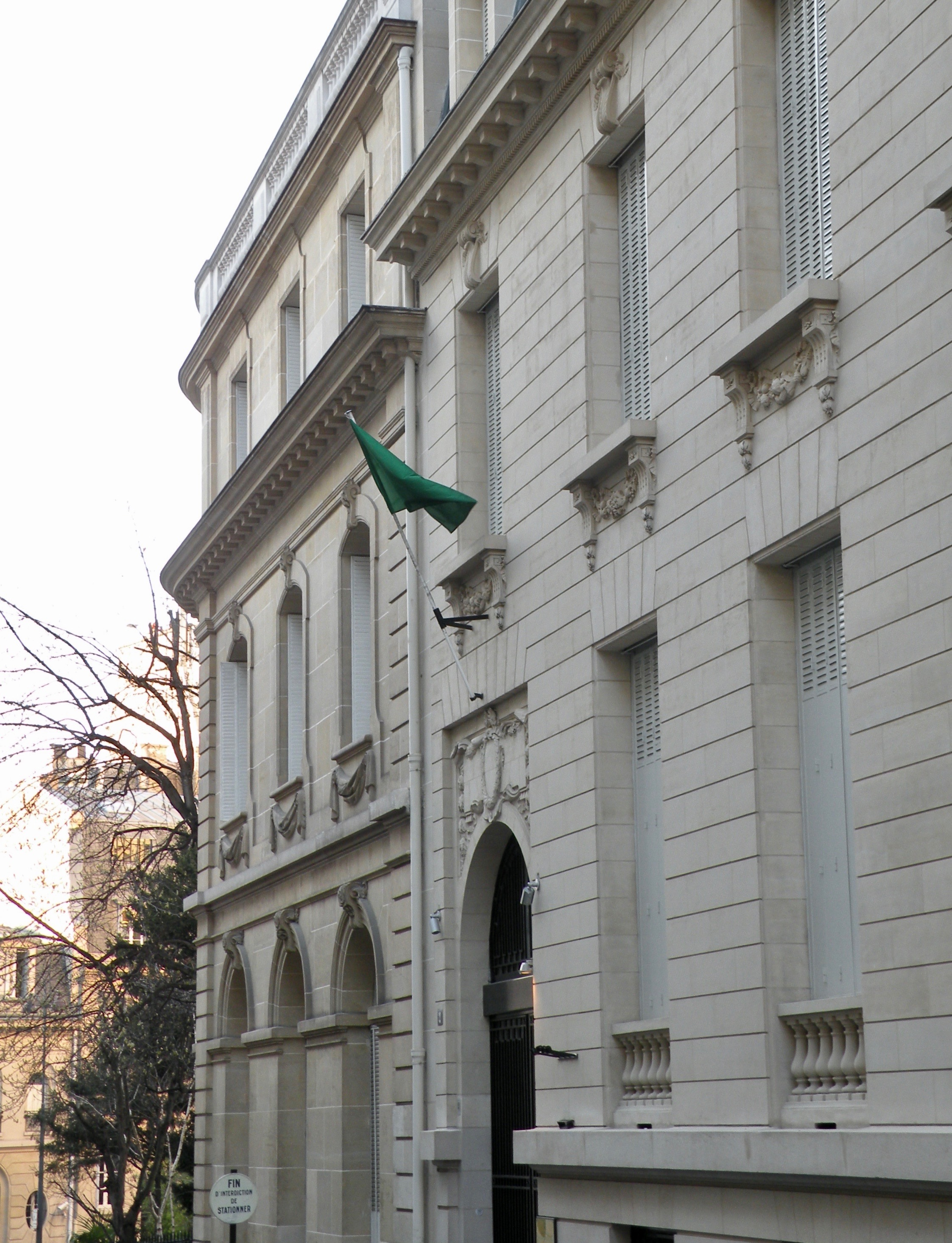 Libyan embassy in France, Paris